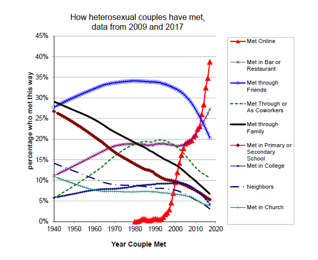 Source: How Couples Meet and Stay Together Surveys, 2009 and 2017 waves. Consistent with Rosenfeld and Thomas (2012), all trends are from unweighted Lowess regression with bandwidth 0.8 (Cleveland 1979), except for meeting online, which is a 5 year moving average because meeting online takes place in the more recent and data‐ rich part of the data. N=2,473 for HCMST 2009 and N=2,997 for HCMST 2017. Friends, family, and co‐workers can belong to either respondent or partner. Percentages do not add to 100% because the categories are not mutually exclusive; more than one category can apply.